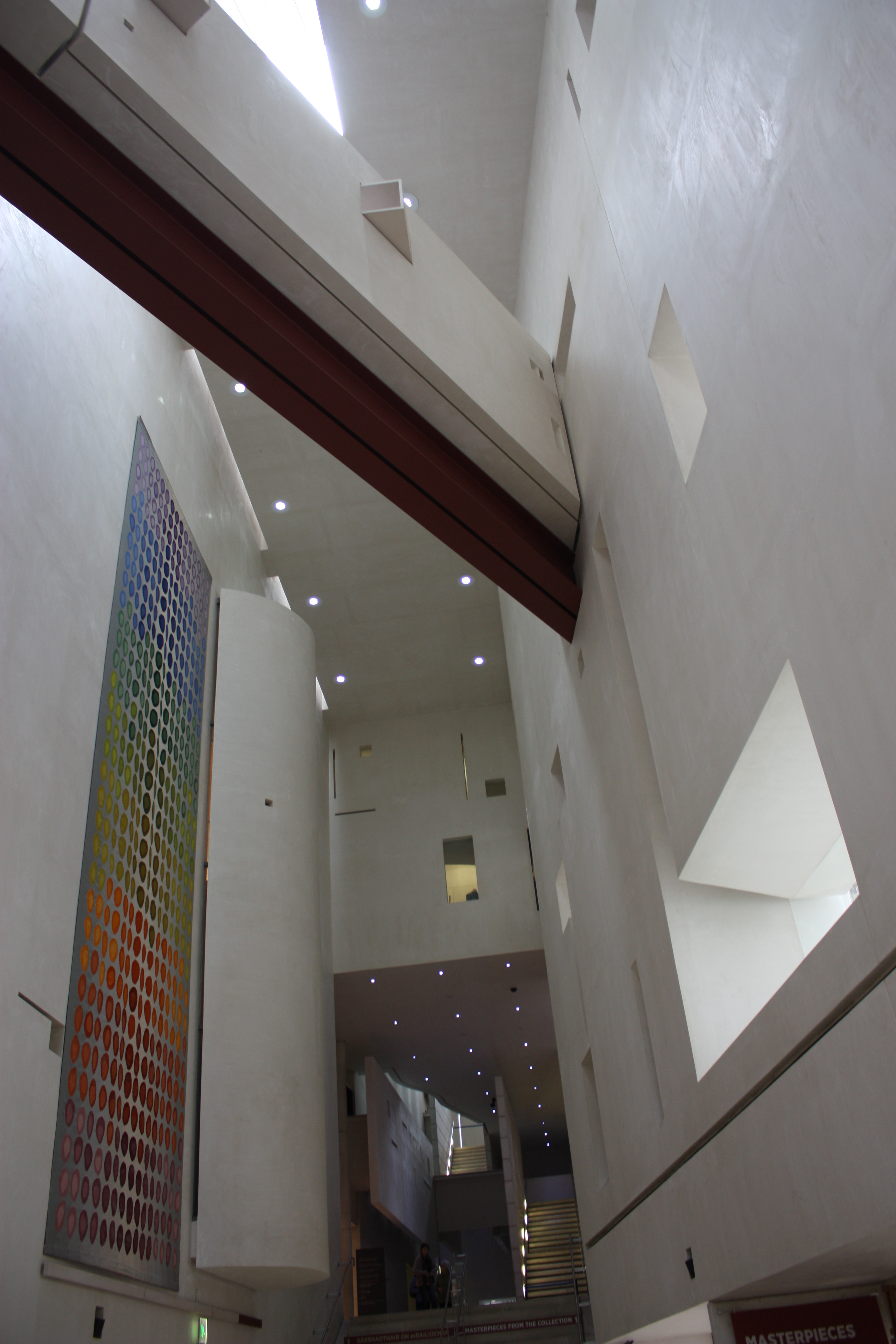 National Gallery of Ireland (Millennium Wing), Clare Street, Dublin, March 2012